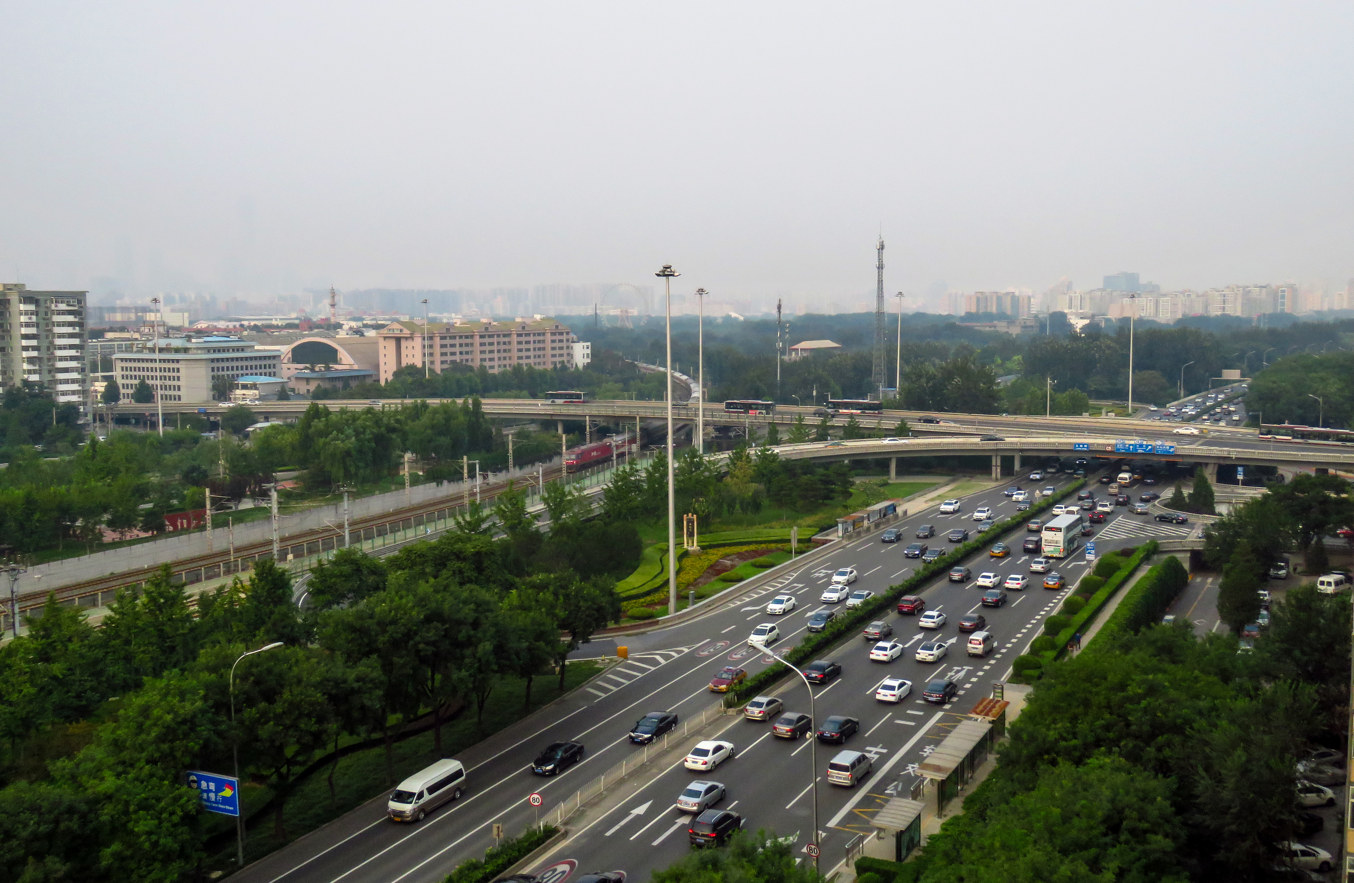 Literally "Jade Dragonfly Bridge" due to its resemblance to a dragonfly in terms of shape. Uh oh, a train came... K27 to Pyongyang. After all, it's just an experimental shot, sorry for the f-smog.